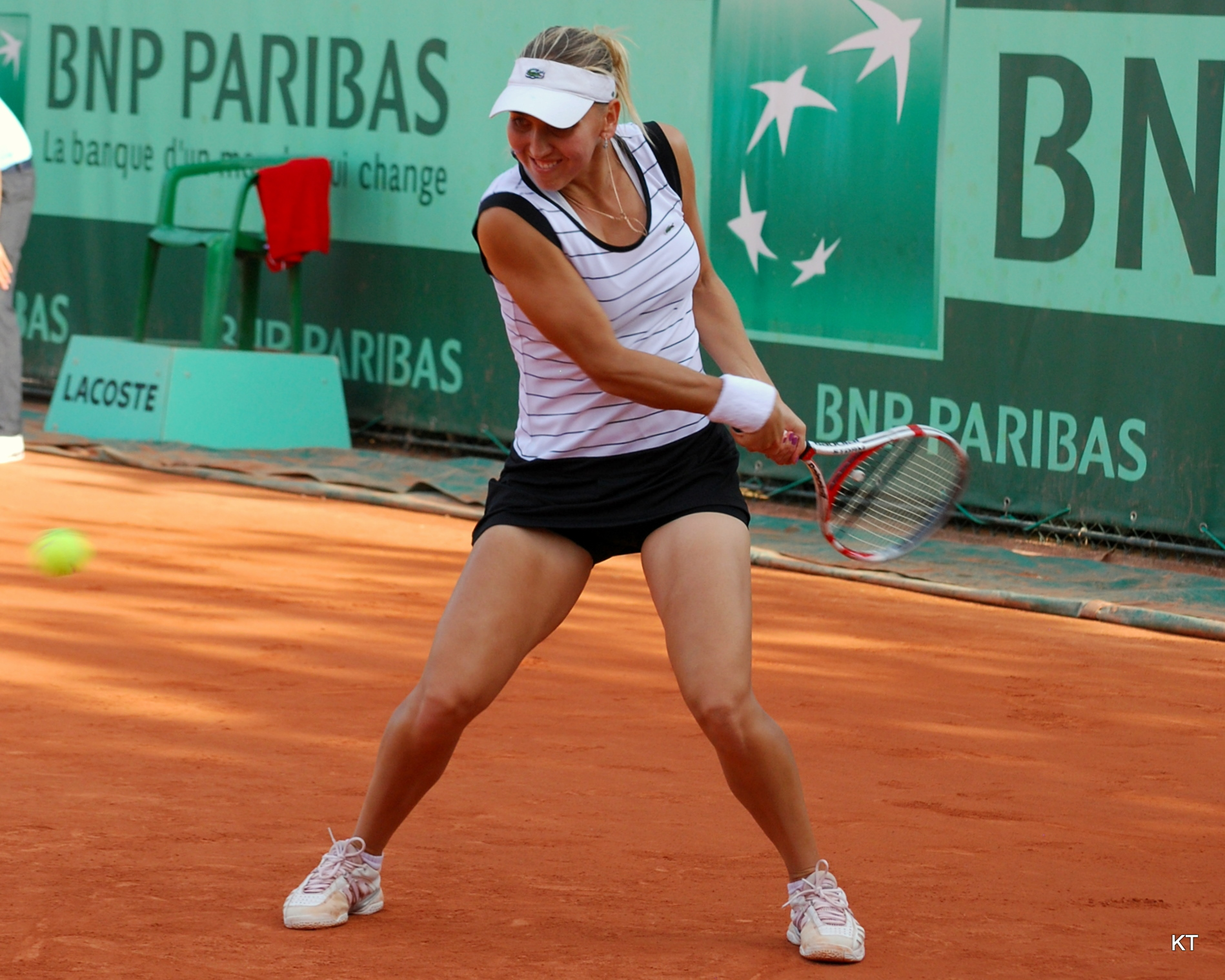 Elena Vesnina during her 2nd round mixed doubles match with Max Mirnyi, against Jamie Murray & Nadia Petrova. Murray & Petrova won 6-3, 4-6, 13-11. Day 7 of Roland Garros 2011.